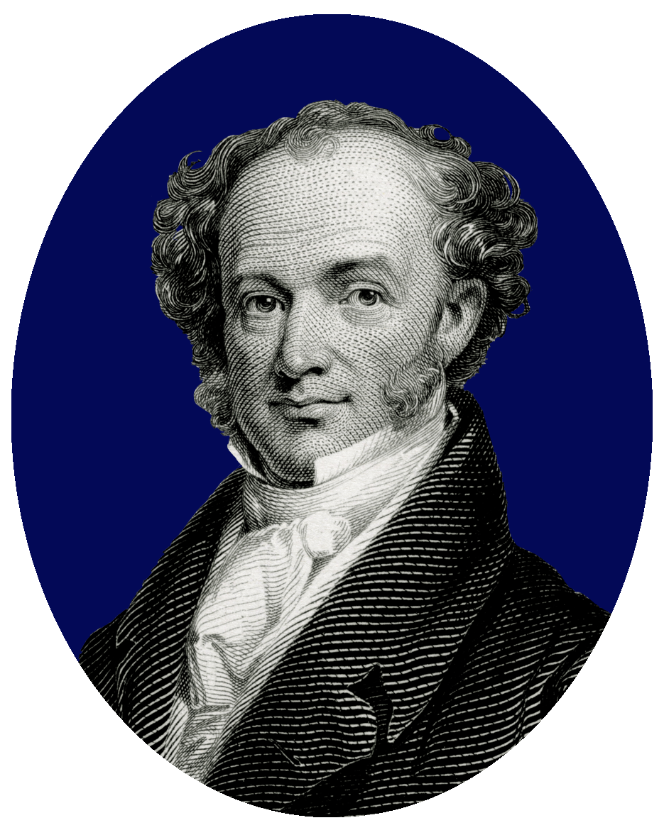 Oval portrait in official DNC blue of Governor Martin Van Buren of New York, nominee of the Democratic Party in 1832